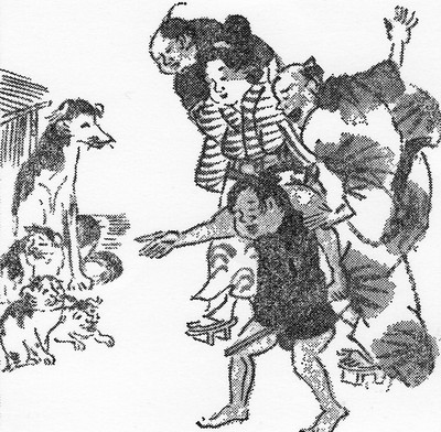 Jinmenken from Gaidan-bunbun-shūyō